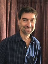 Taken at the New Zealand Skeptics Conference in Queenstown 2016